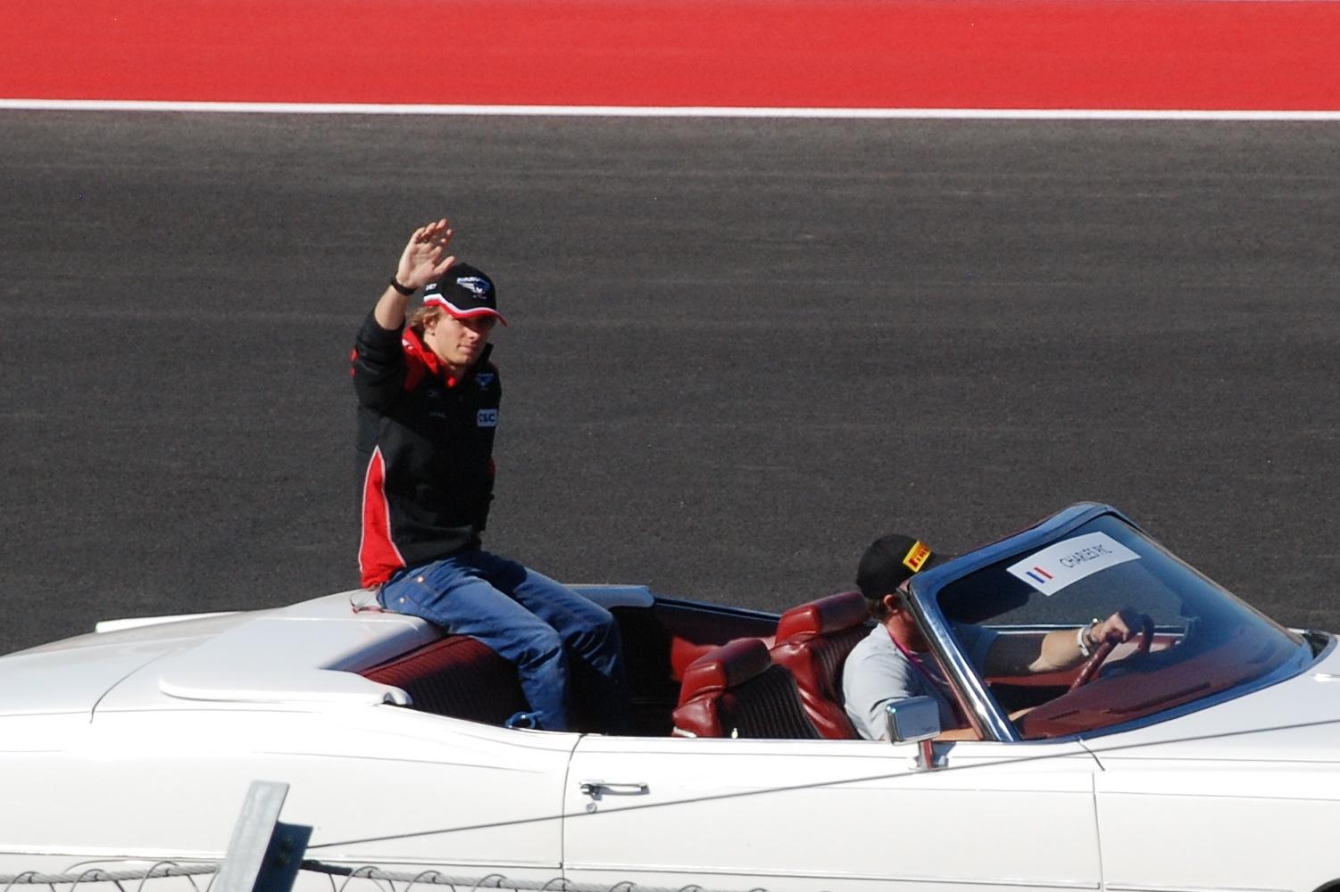 Charles Pic, United States Grand Prix, Austin 2012